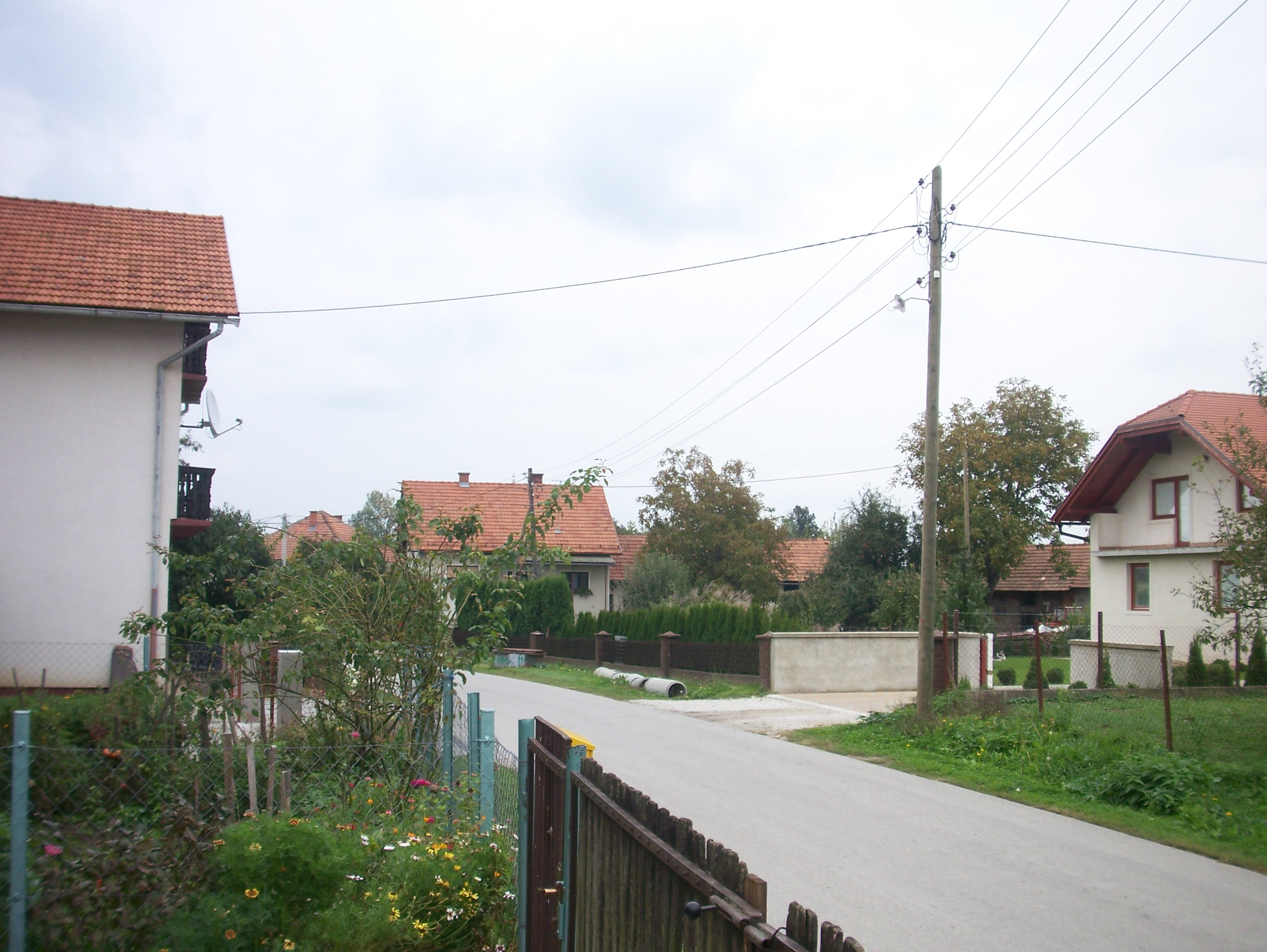 Greda Marusevecka